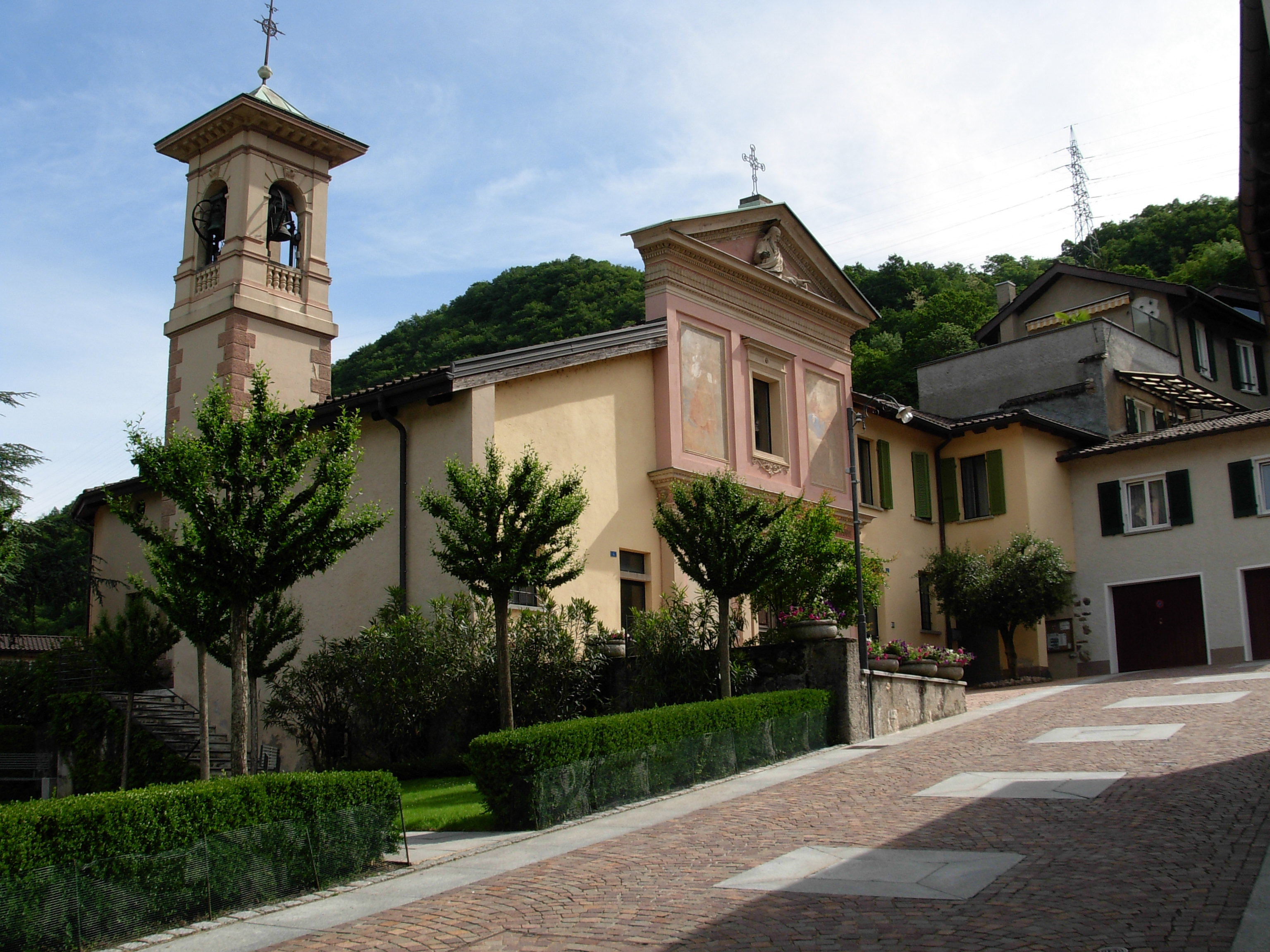 The church San Cristoforo in Grancia in the Swiss Canton of Ticino